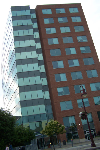 Taken by User:Trappy. This is a photograph of the Ministry of Transportation (Ontario) headquarters in downtown St. Catharines. I personally took this photo and release it to the public domain.